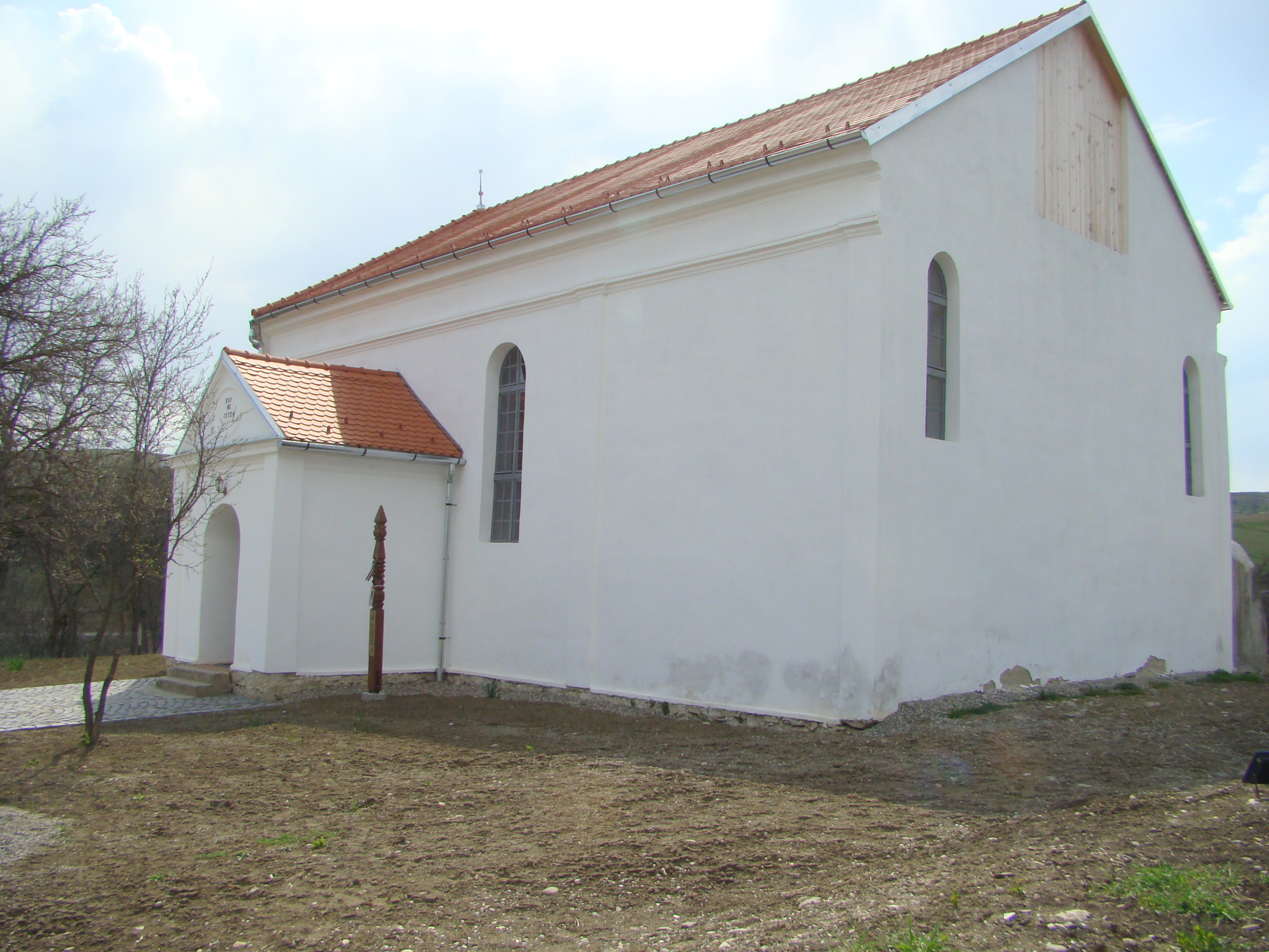 Unitarian church in Tărcești, Harghita county, Romania